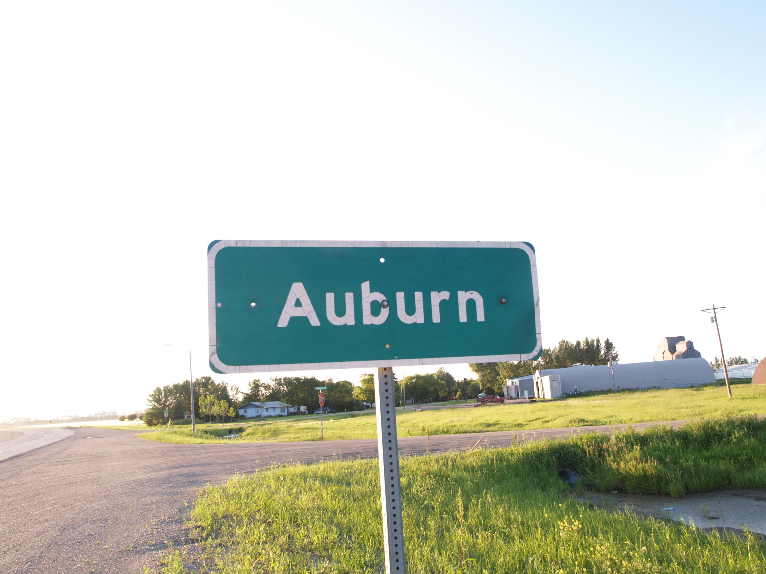 Sign for Auburn, North Dakota. From